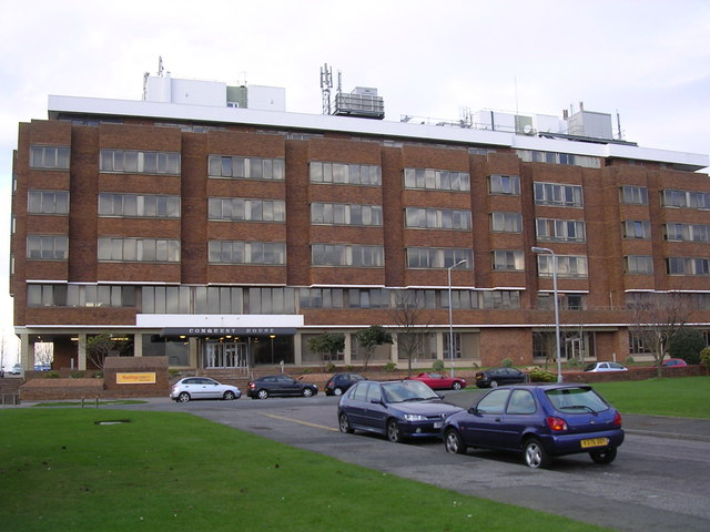 Conquest House, Bexhill Home of Hastings Direct and possibly the largest building and employer in Bexhill.